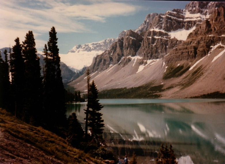 Bow Lake, Banff National Park, Alberta, Canada